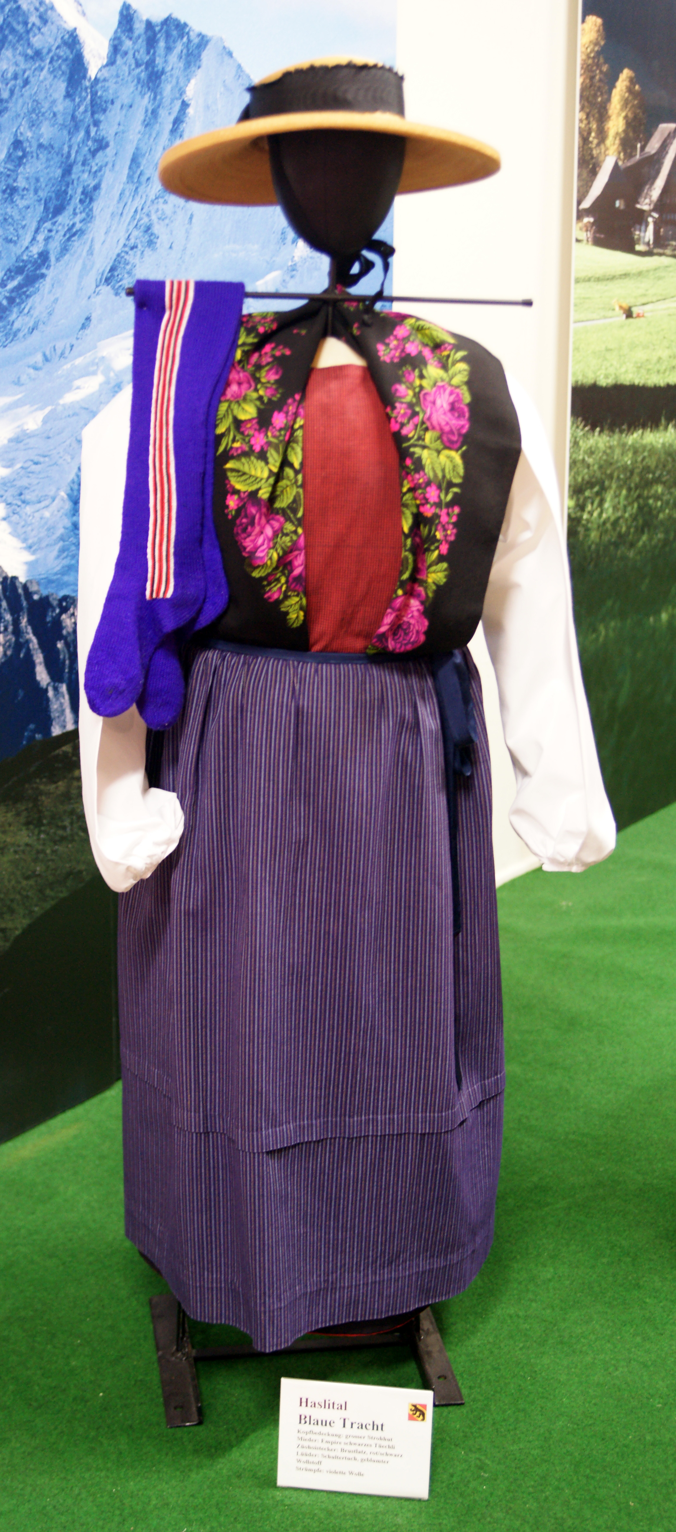 Traditional blue costume of the Haslital, Canton of Bern, Switzerland.